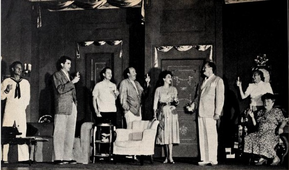 From Photoplay, 1949